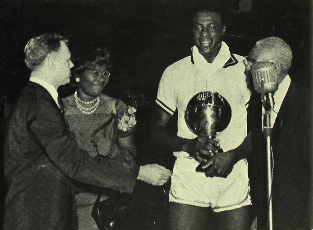 Photograph of Cazzie Russell accepts trophy as the Big Ten's Most Valuable Player